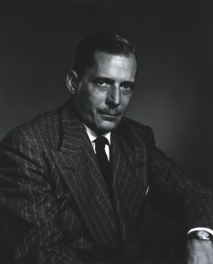 Pearce Bailey, director of the National Institute for Neurological Disorders and Blindness, 1951-1959